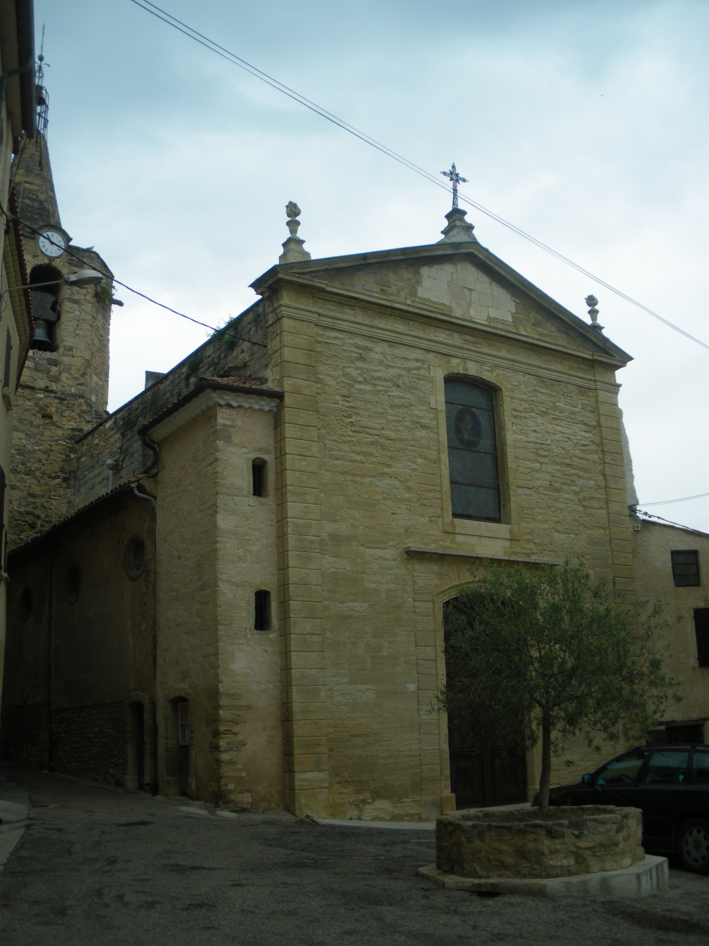 Church of Malemort du Comtat, Vaucluse, France